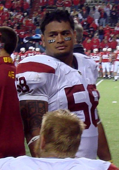 Linebacker Rey Maualuga on the sideline during the final minutes of a USC victory over Nebraska.